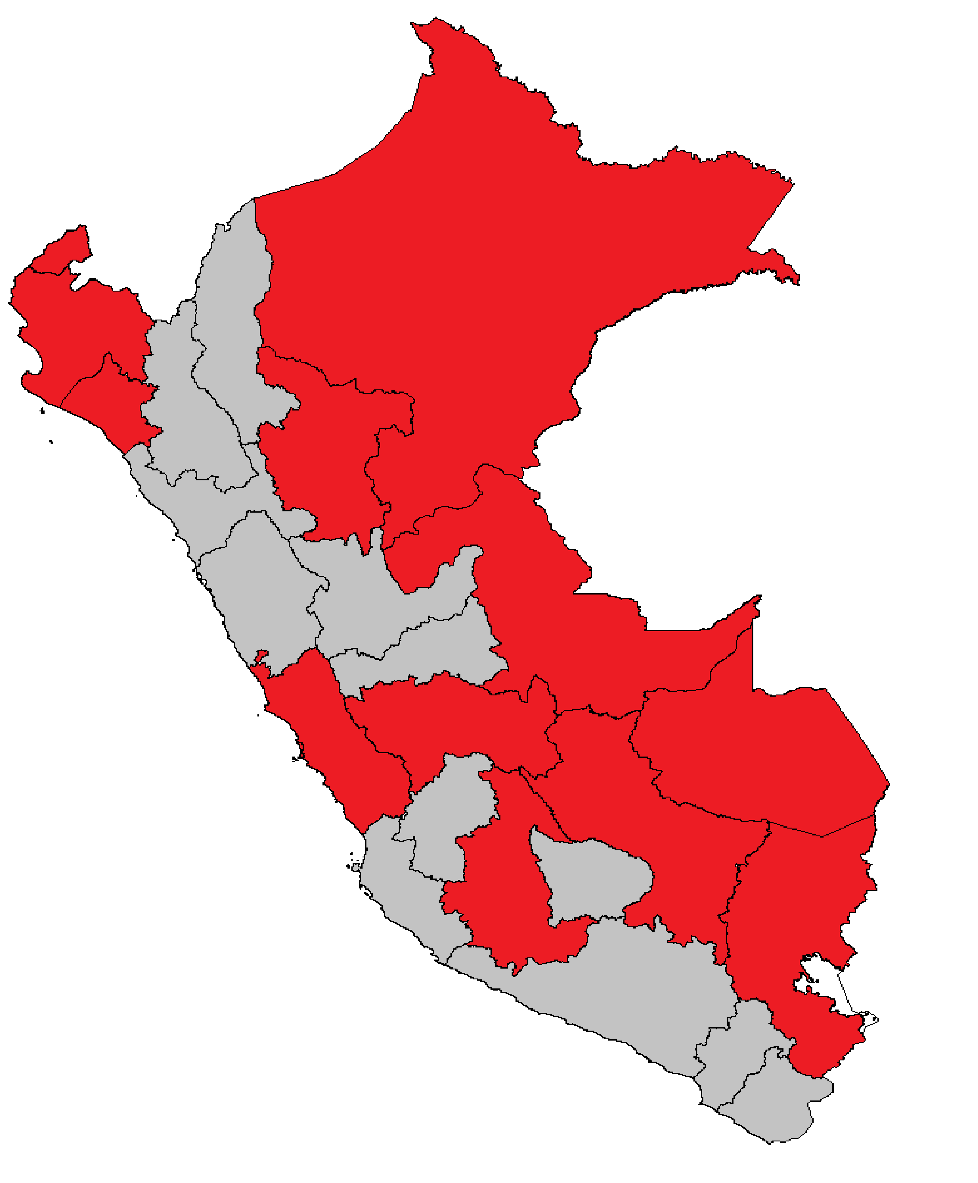 Dengue epidemic 2019-2020 in the Republic of Peru